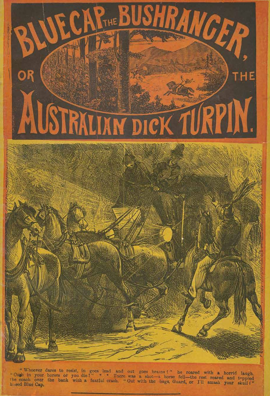 Cover of Bluecap the Bushranger, or the Australian Dick Turpin by James Skipp Borlase